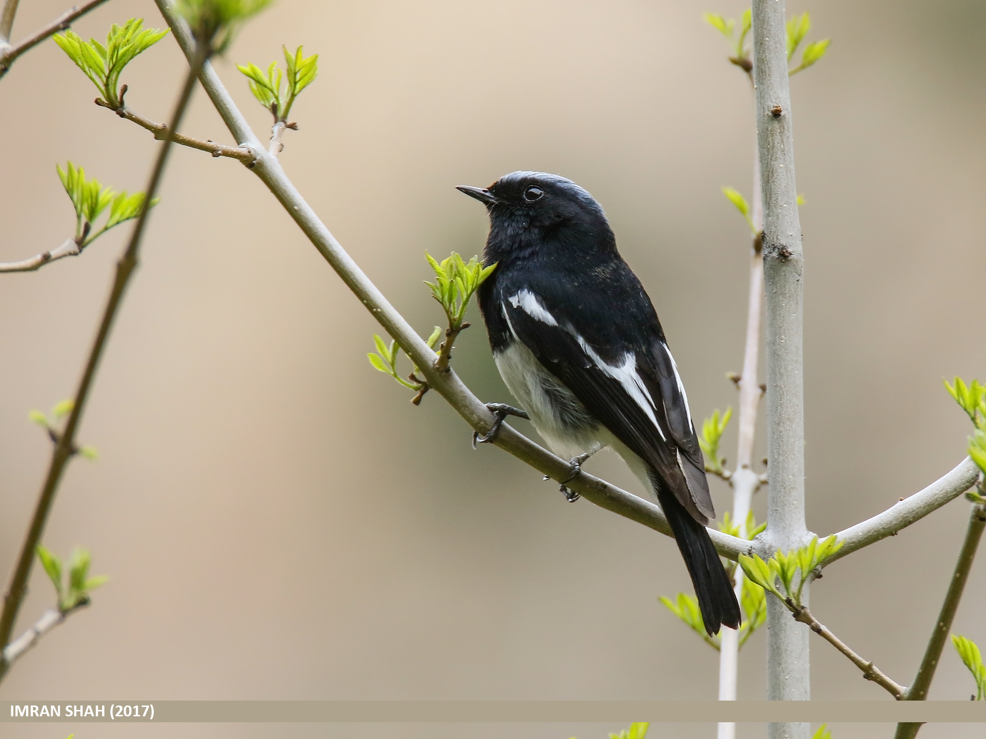 Blue-capped Redstart (Phoenicurus caeruleocephala) captured at Nilt Pasture, Nagar, Gilgit-Baltistan, Pakistan with Canon EOS 7D Mark II